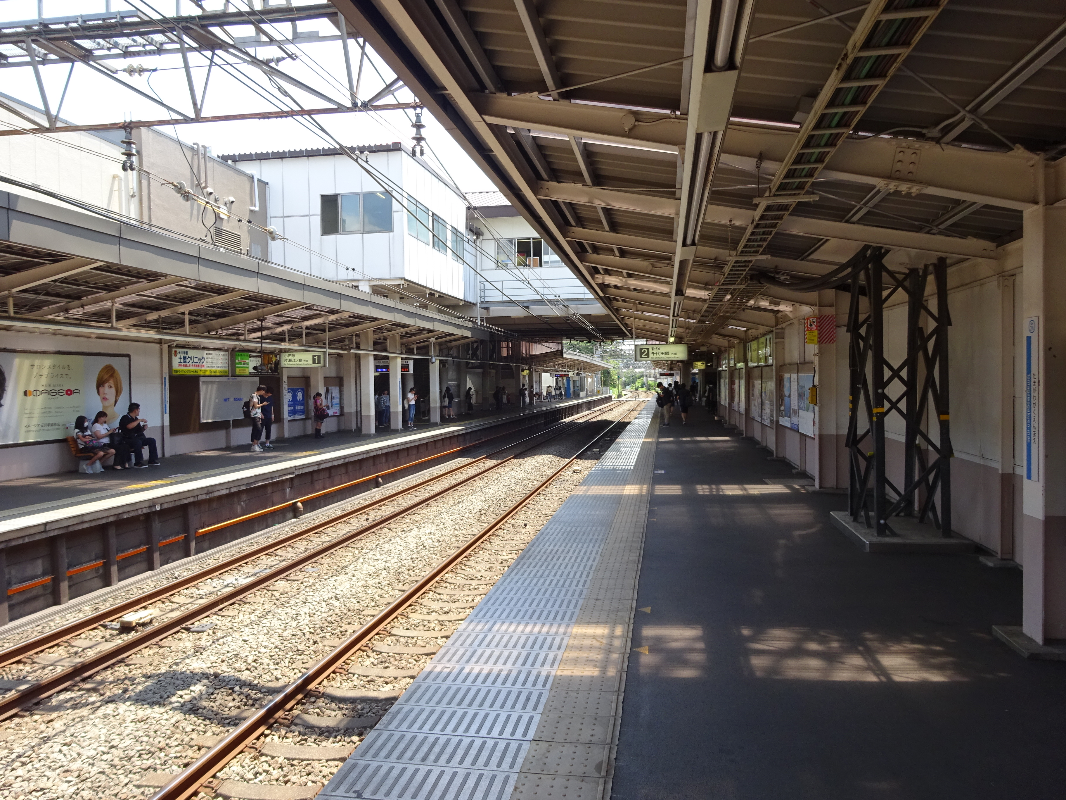 Platforms of Tamagawagakuen-mae Station